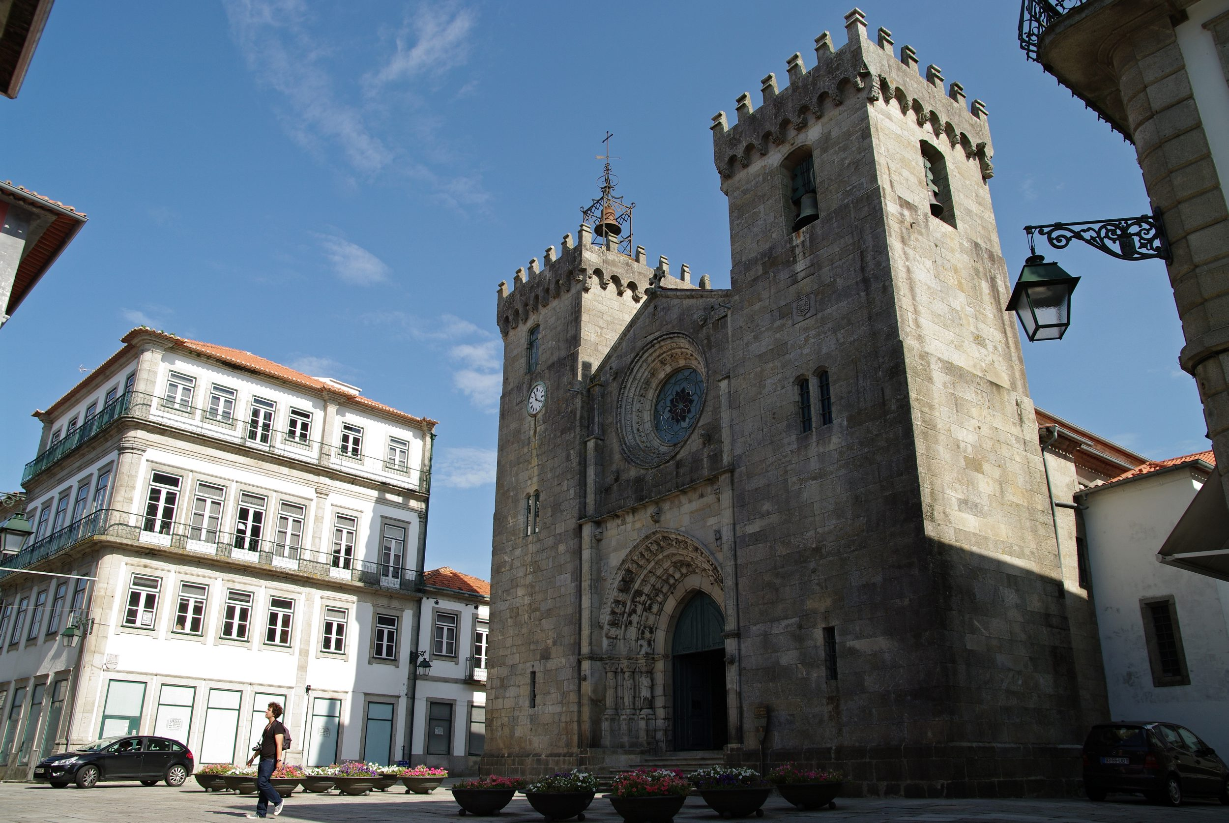 This file was uploaded for Wiki Loves Monuments in Portugal with the unique identifier 73901.